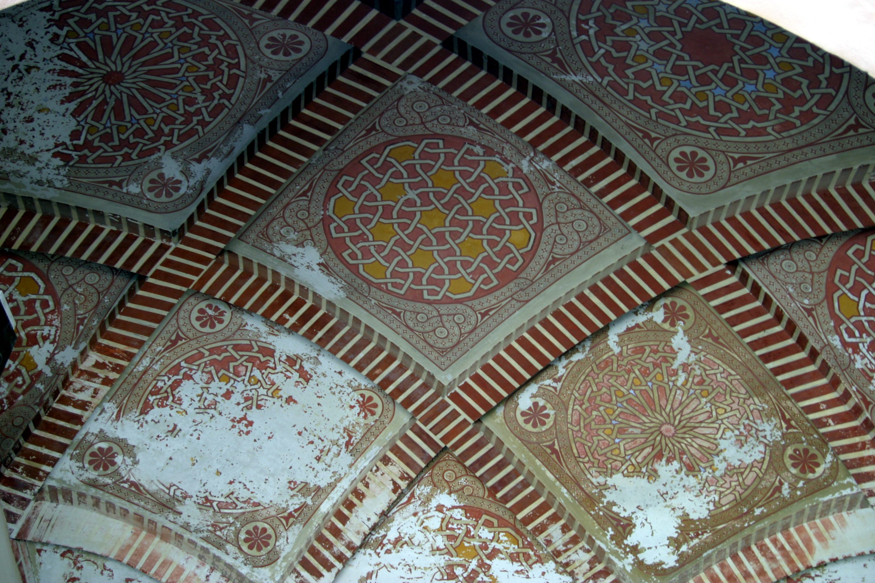 Alcazaba of Malaga, Spain